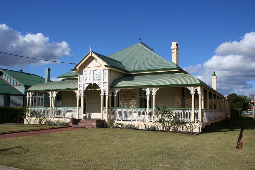 Residence, 50 Guy Street, Warwick, 2008